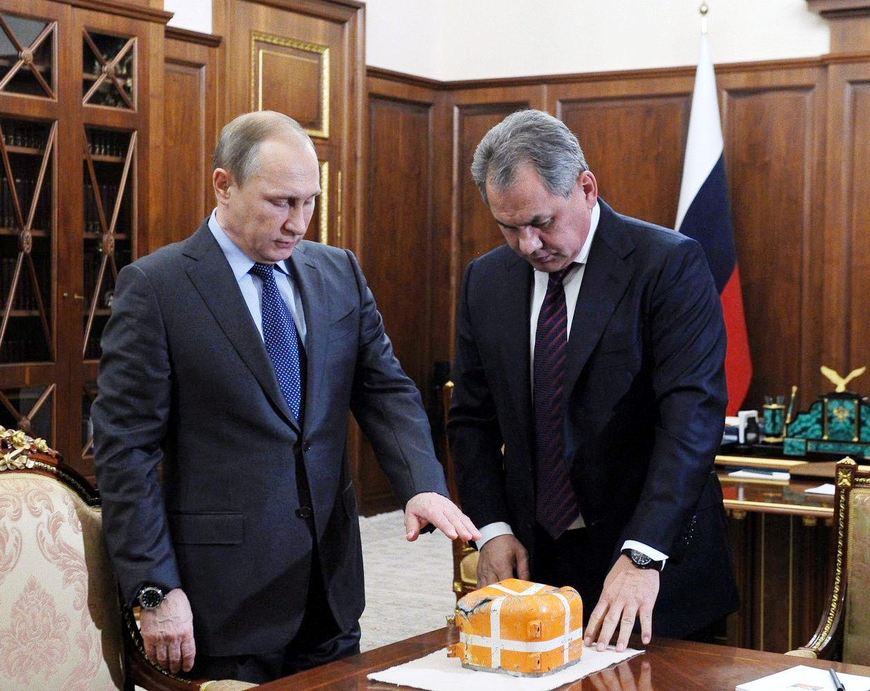 Russian Defence Minister informed the President on the discovery of the flight data recorder from the Russian fighter jet shot down in Syria